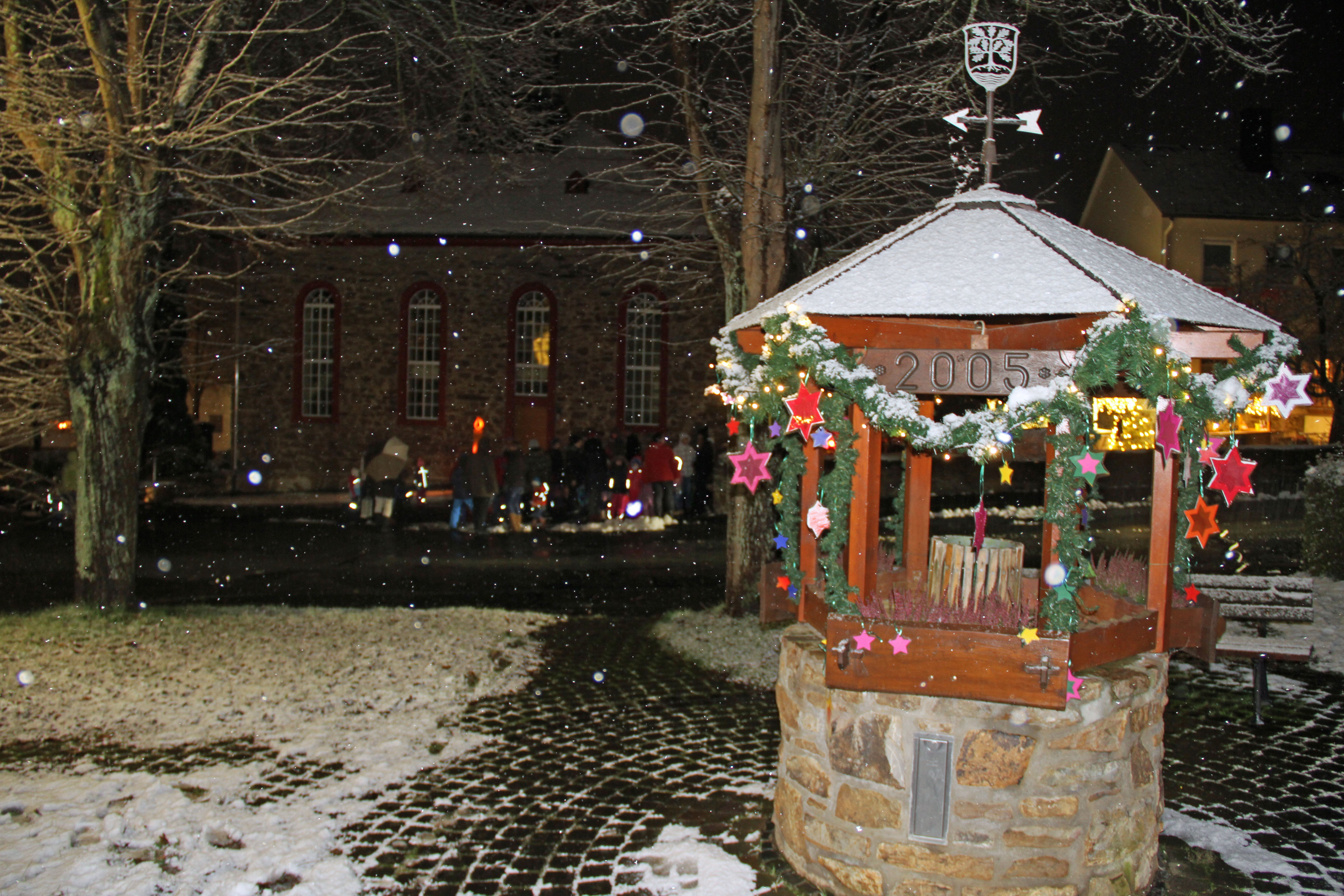 Der Dorfbrunnen im adventlichen "Kostüm" (im Hintergrund die Kirche)